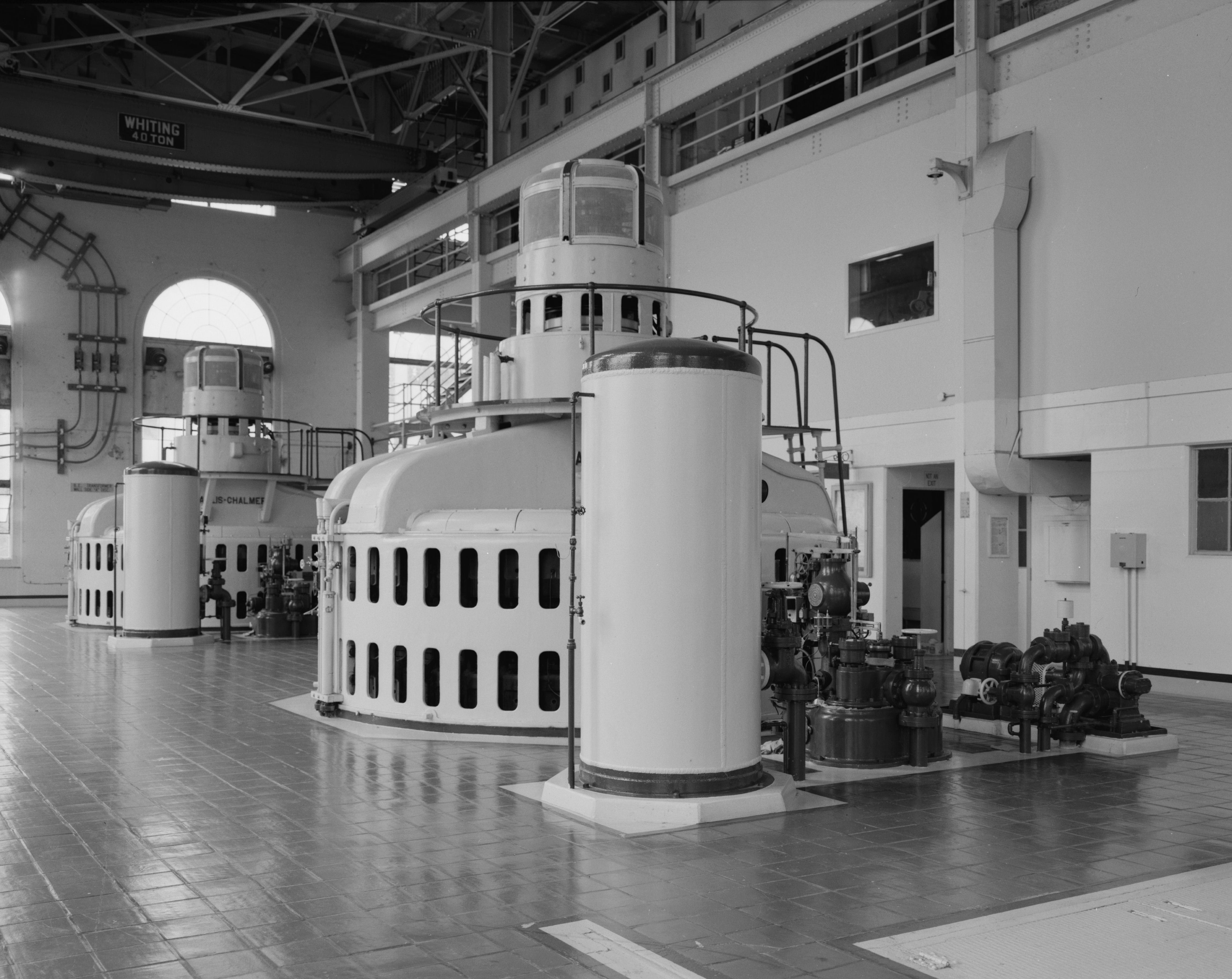 Interior of the powerhouse of the Black Eagle Dam on the Missouri River in Great Falls, Montana, United States, in 1996. Turbine No. 2 is in the foreground; Turbine No. 3 is in the rearground. In front of each turbine (left to right) are the oil tank for the oil-pressure governor, the governor stand, and the oil pump.